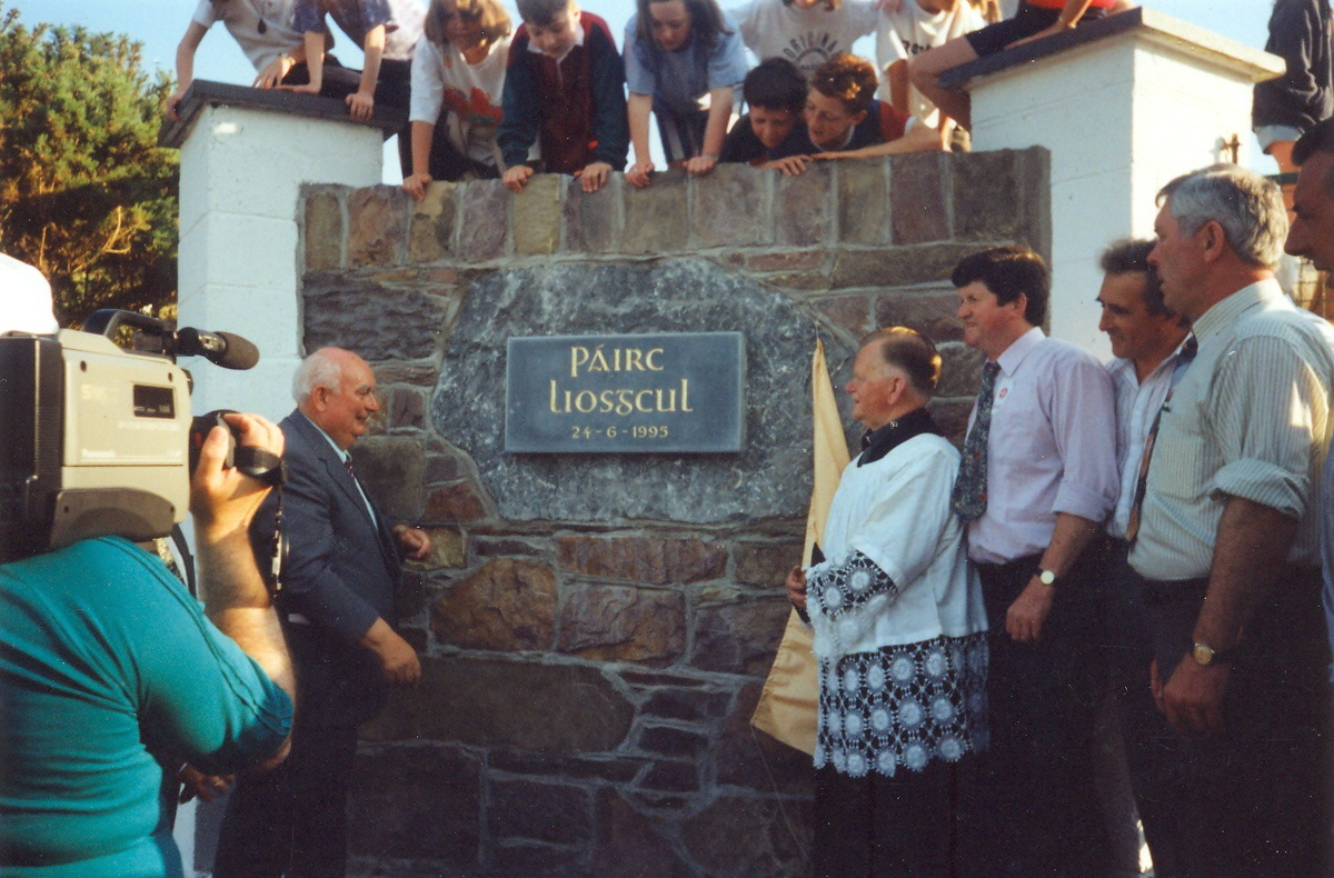 Opening of Paric Liosgcul by GAA President Jack Boothman June 1995.; Moss 15:03, 5 November 2015 (UTC)